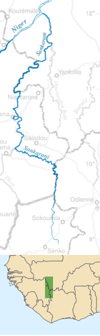 Map of the Sankarani river in Cote d'Ivoire, Guinea, and Mali.